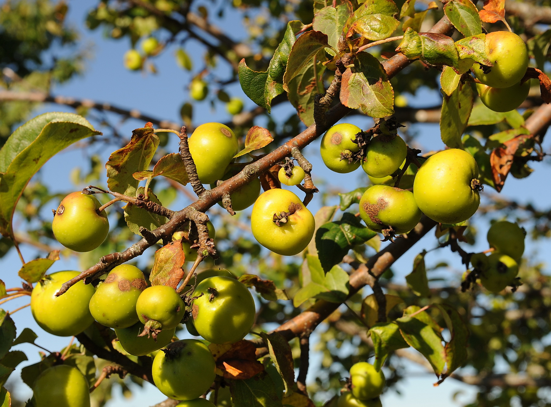 Ripe crab apples (Malus sylvestris)